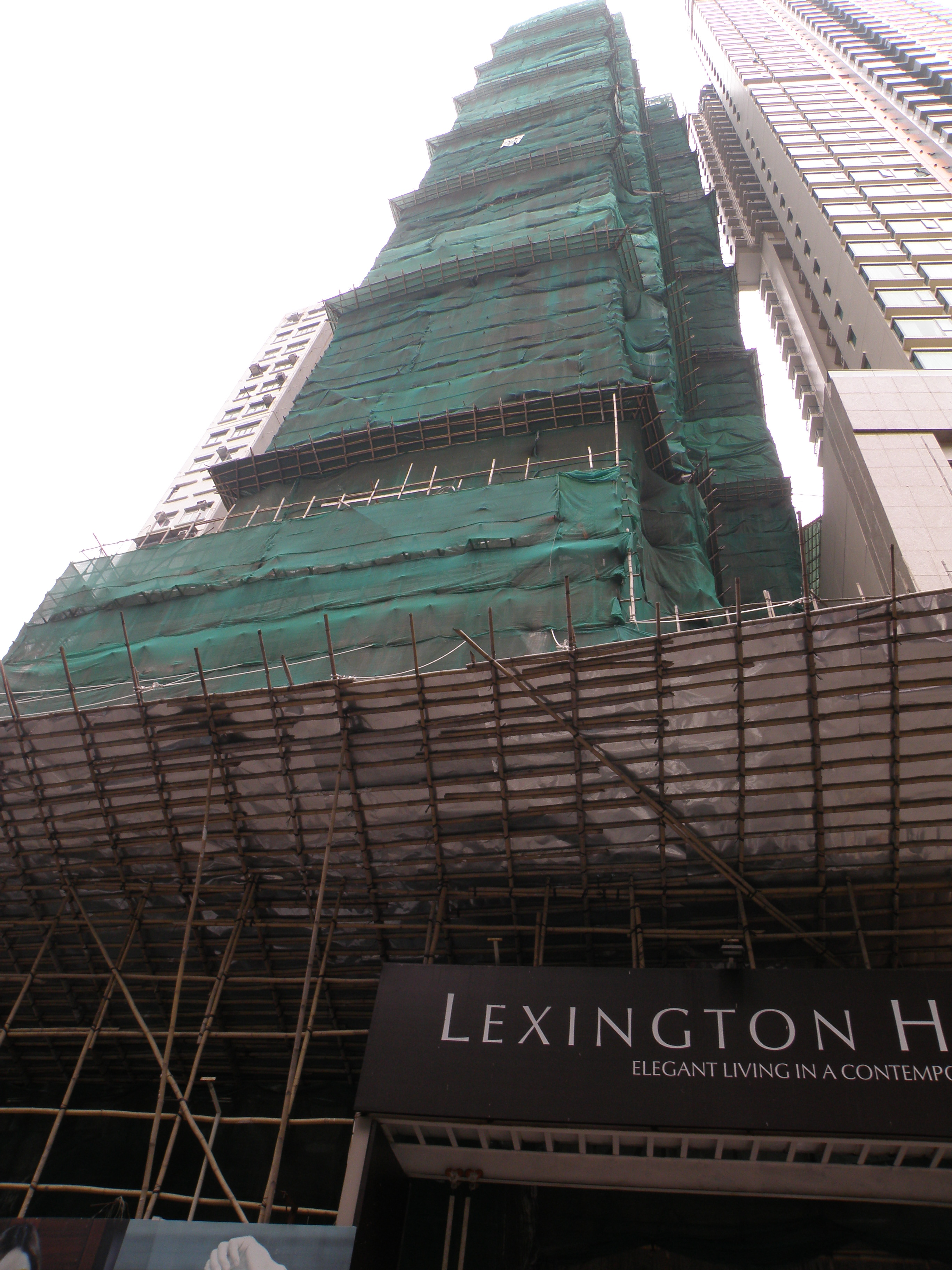 Lexington Hill viewed from Rock Hill Street, under construction